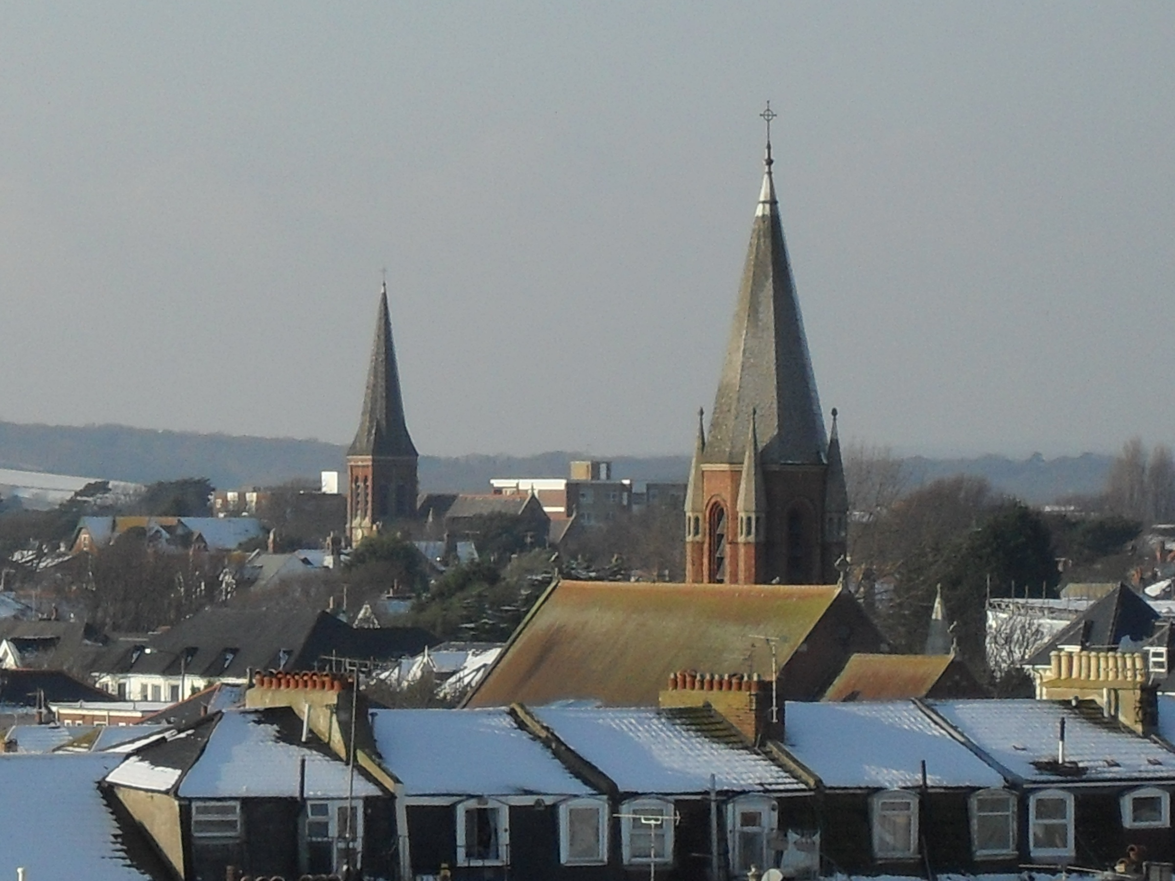 Roofscape in Worthing, West Sussex, with the spires of Holy Trinity parish church, Shelley Road, (foreground) and St Botolph's parish church, Lansdowne Road, Heene (background), seen from the roof of the multistorey car park on the seafront